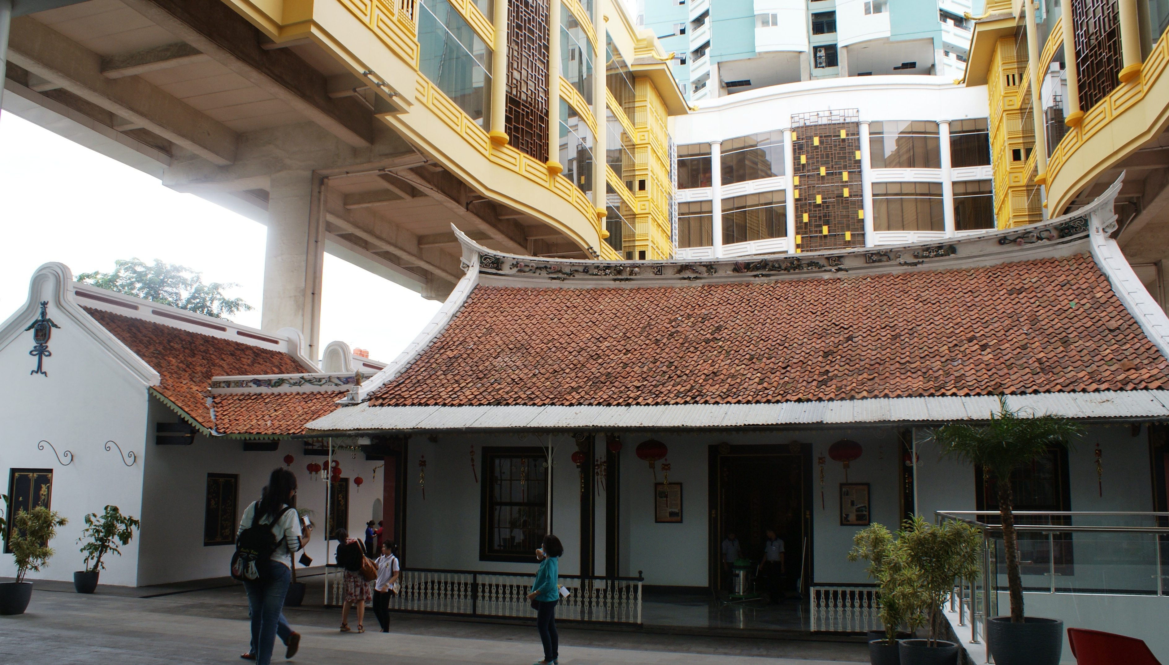 Front side of Candra Naya Building in 2013